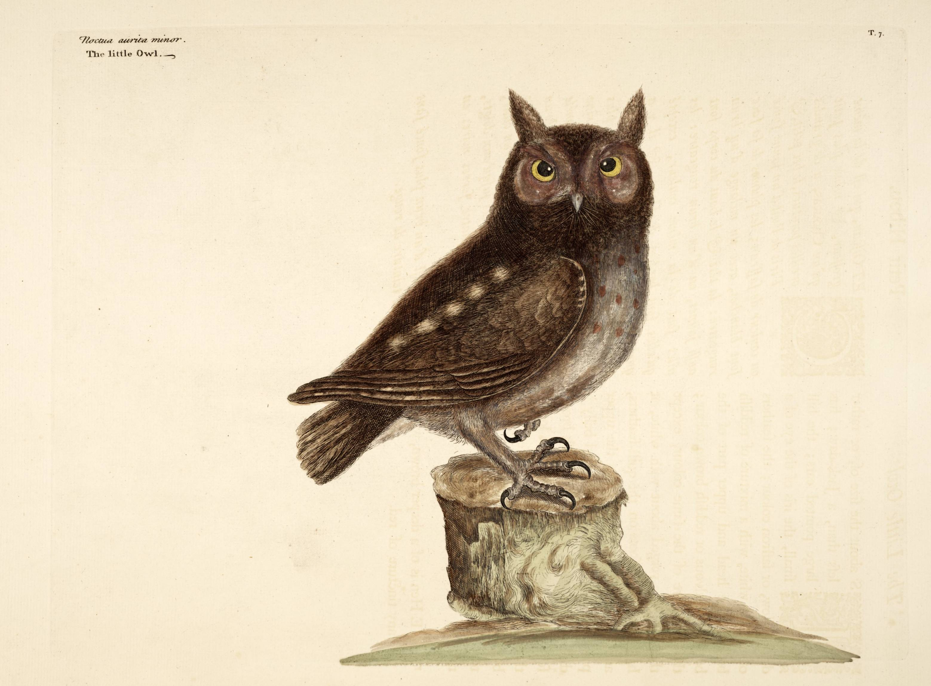 Mark Catesby (1731), Natural History of Carolina etc., plate 7, with Noctua aurita minor, the Eastern Screech Owl (Megascops asio).